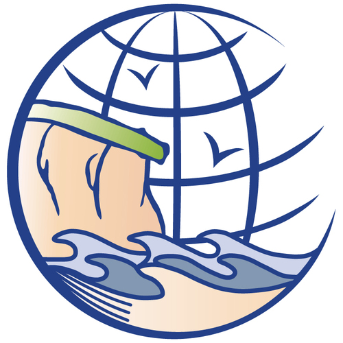 UNESCO Fundy Biosphere Reserve